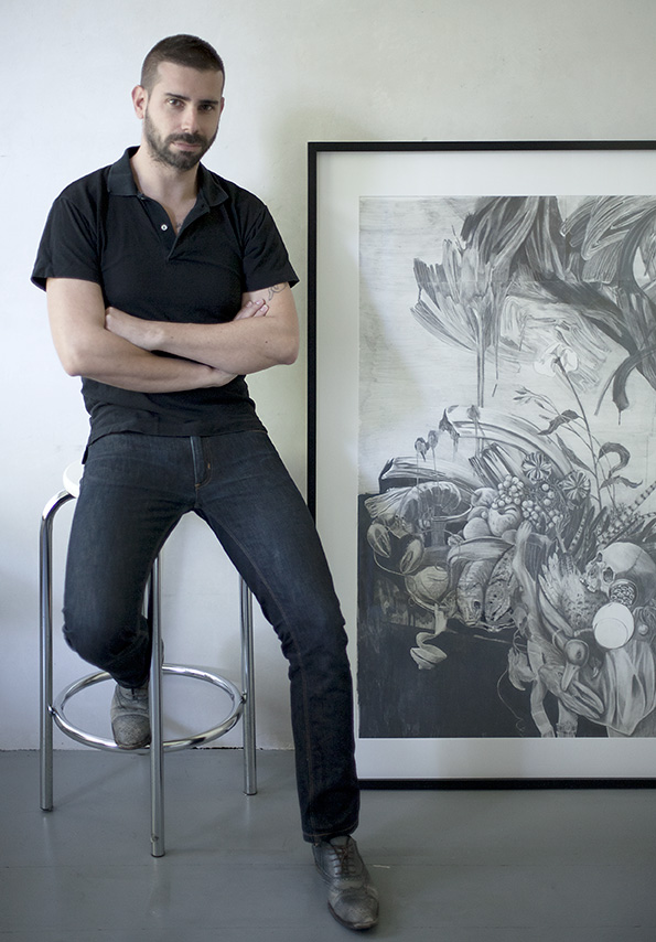 Visual artist Marc Bauer posing in his Berlin studio next to his work 'Life' from 2009